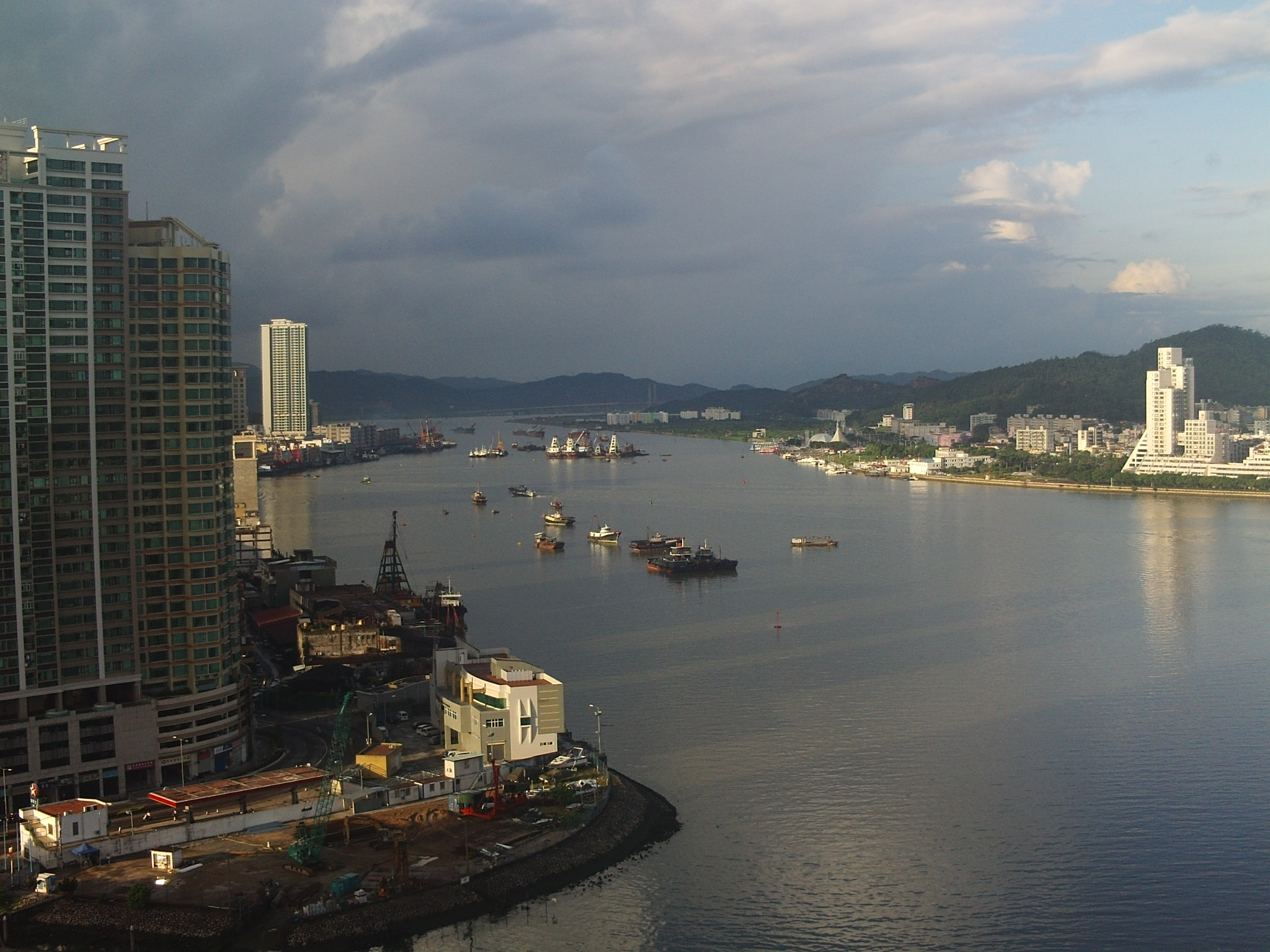 River between China and Macau